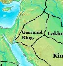 Ghassanid kingdom